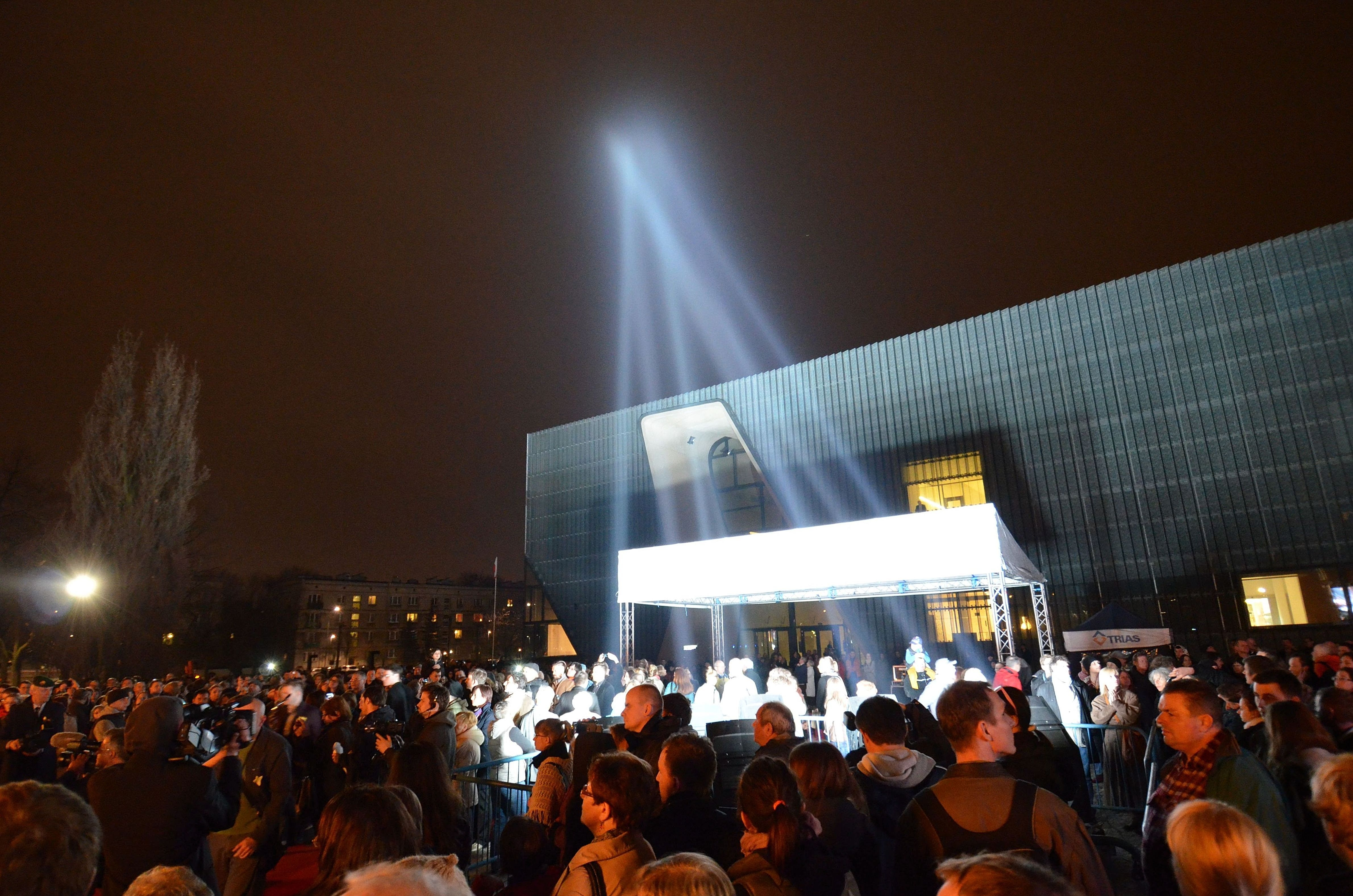 Light installation - tribute to the fighters of the Warsaw Ghetto Uprising and the Warsaw Uprising. Museum of the History of Polish Jews, 19th April 2013